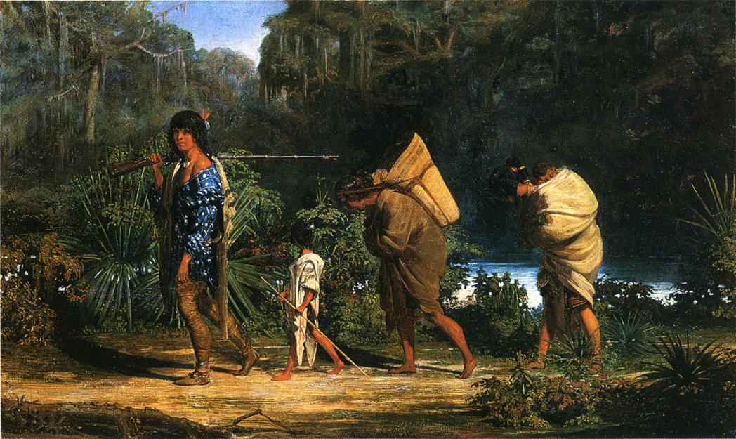 A man, two woman, and child are walking along a river in a marshy area. The man, who leads, carries a long rifle over his shoulder. A boy follows, holding a long stick-- probably a bow or blowgun. A woman carries a basket over her shoulders, while the second woman carries a sleeping baby on her back. Both women have their heads bowed as the males look on.